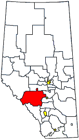 Map showing the location of Rocky Mountain House a provincial electoral district in Alberta under 2004 boundaries